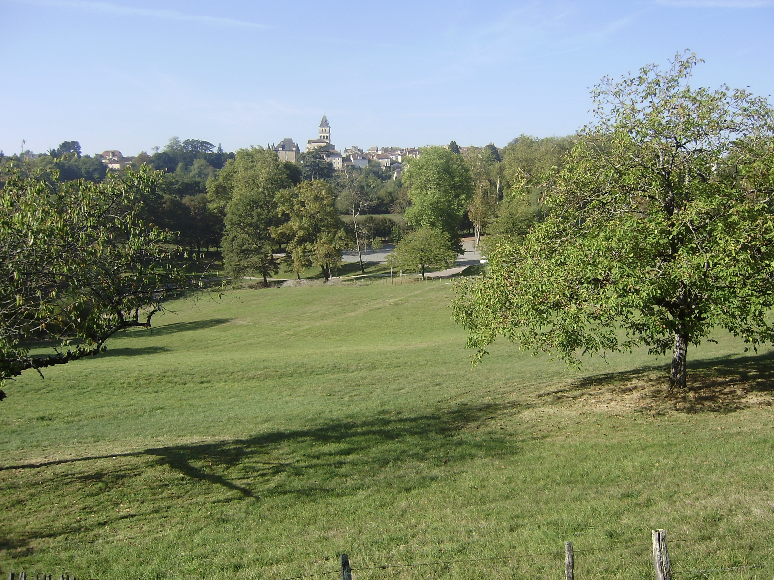 Thiviers (Dordogne, France) seen from the northeast.